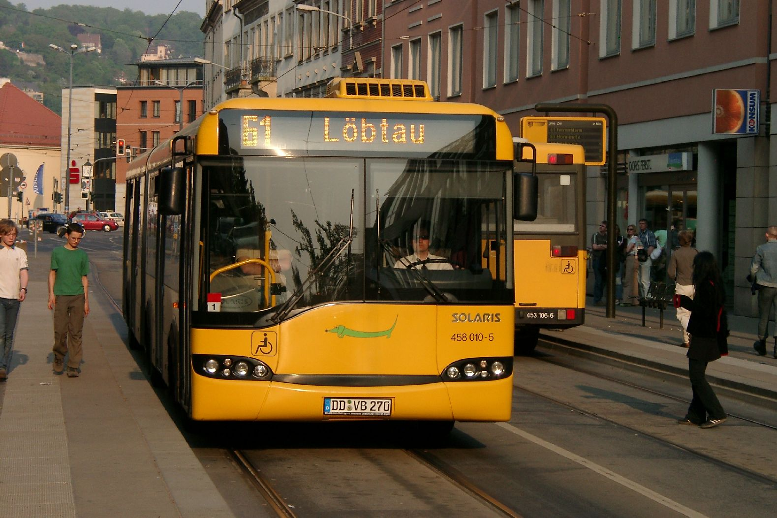 Solaris Urbino 18 bus (#458 010-5) in Dresden, Germany. Built 2004, DVB Dresden operator.